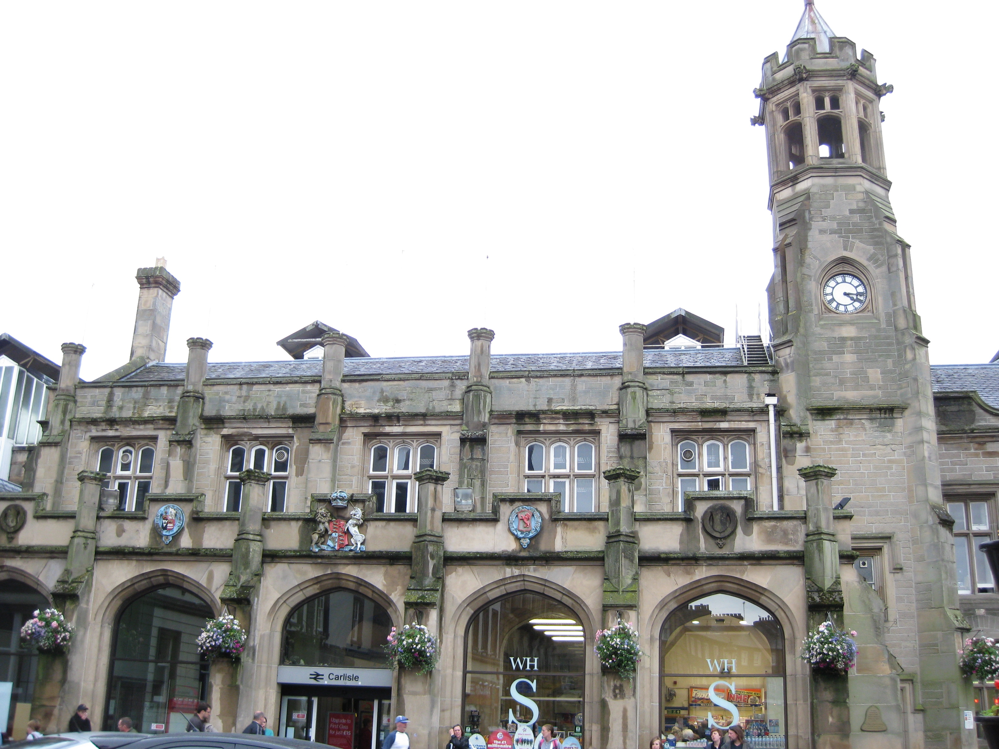 1847 facade of Carlisle railway station, Cumbria, England